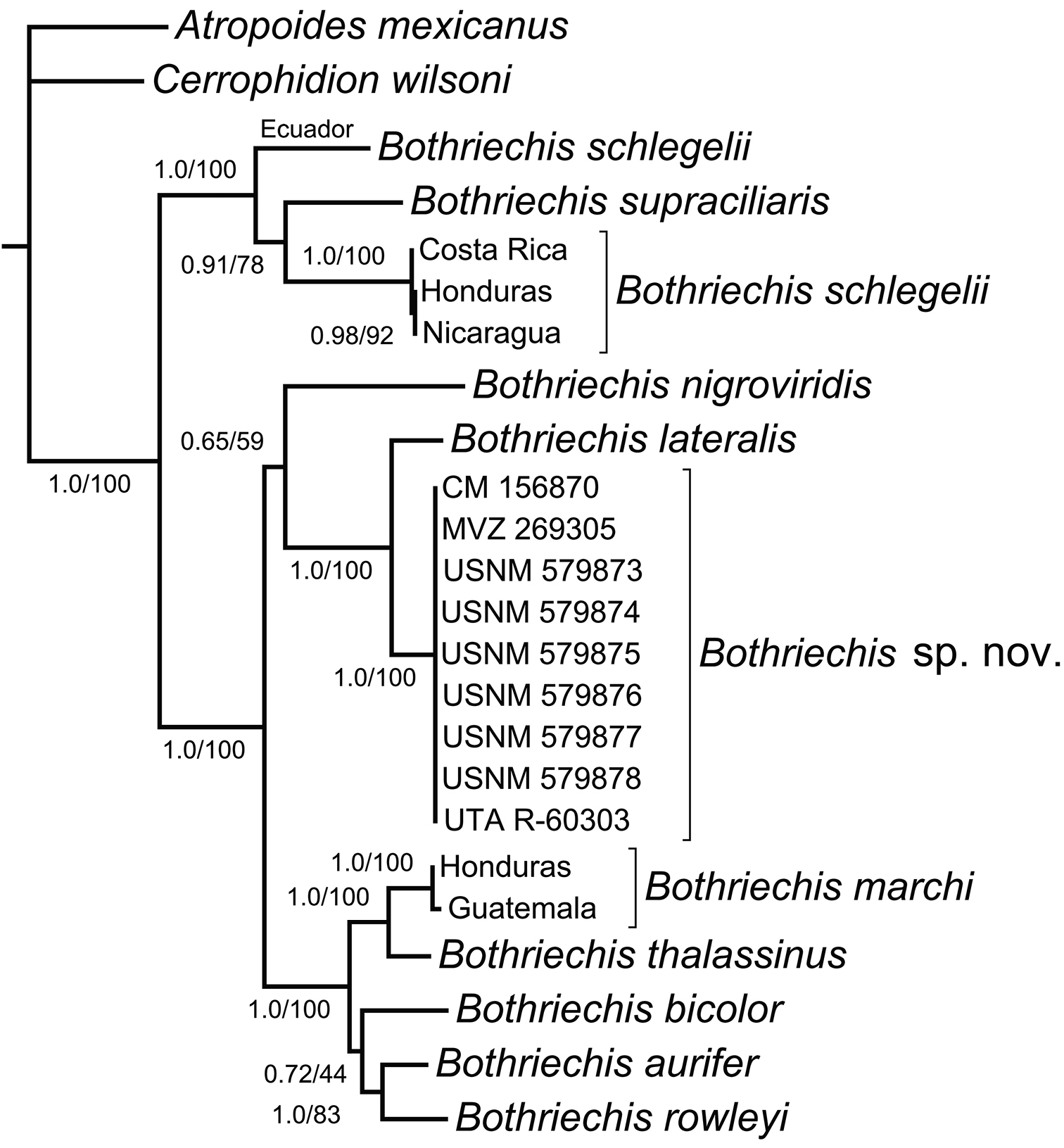 Phylogeny of palm-pitvipers (genus Bothriechis), showing strong support for a species-level clade of the Texíguat population (Bothriechis sp. n.) that is sister to Bothriechis lateralis. The tree was estimated from a Bayesian 50% majority-rule consensus composed from a concatenated mitochondrial dataset (ND4, cyt b, 12S, and 16S; total of 2263 bp). Numbers at nodes represent values of Bayesian posterior probabilities (PP, left) and Maximum Likelihood bootstraps (BS, right). Nodes supported by ≥ 95% PP and ≥ 70 BS are considered highly supported.